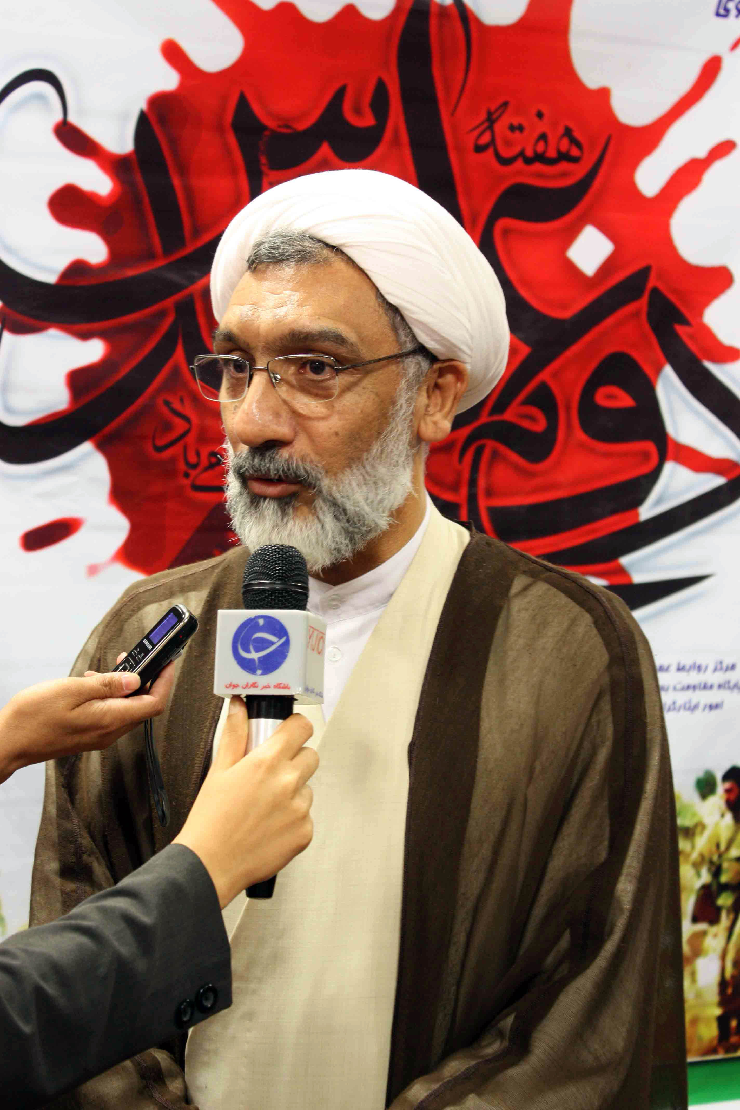 Portrait of Mostafa Pourmohammadi.